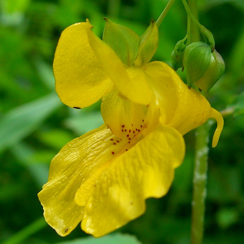 Scientific Name: Impatiens pallida Nutt. Common Name: Yellow Jewel Weed Certainty: positive (notes) Location: Southern Appalachians; Smokies; CabinCove Date: 20060710